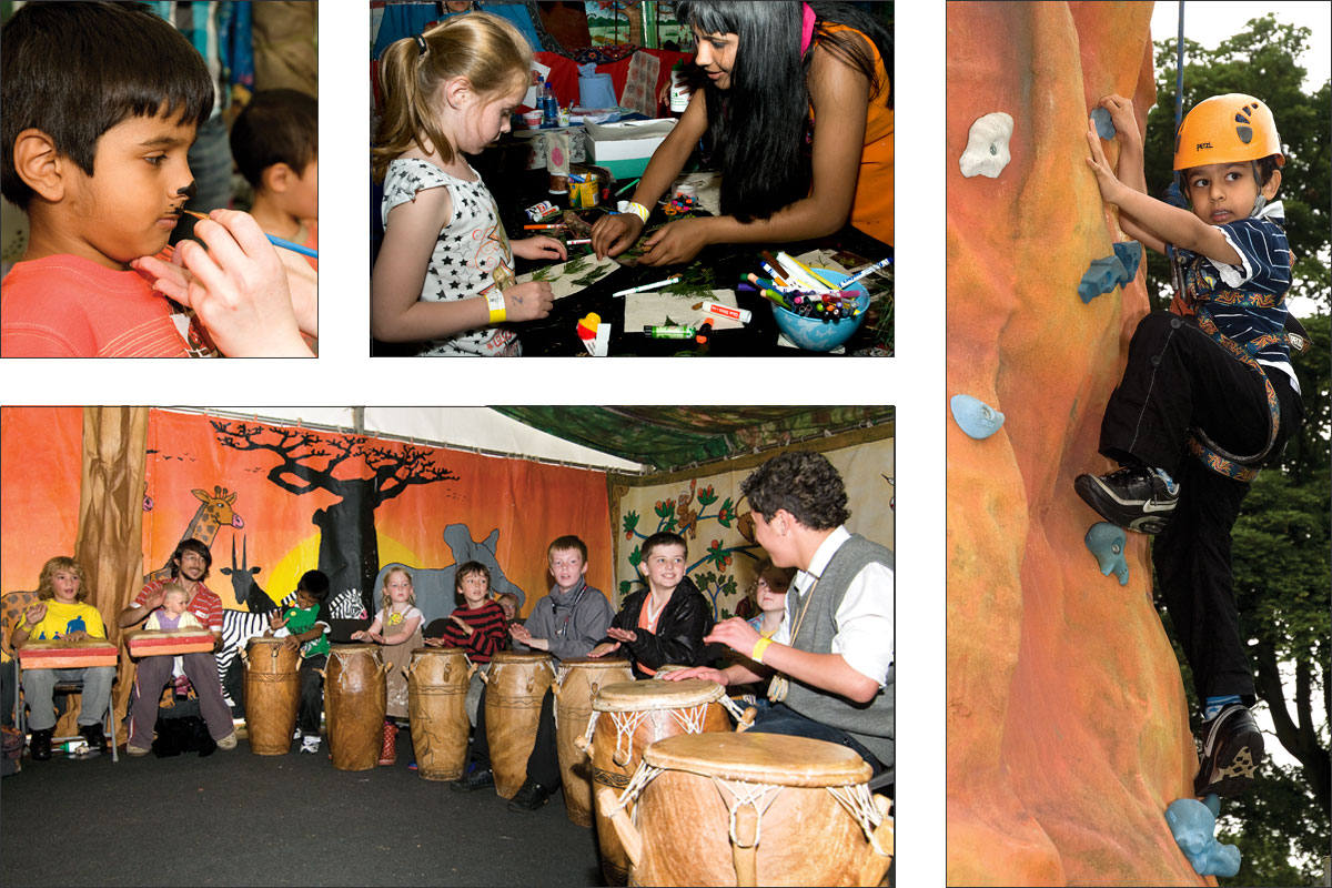 childrens mela